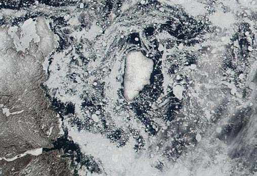 Terra MODIS satellite image of Ungava Bay with Akpatok Island, Nunavut, Canada